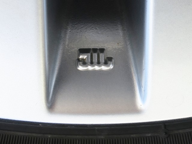 Subaru original aluminum wheel JWL (Japan Light Alloy Wheel) mark.